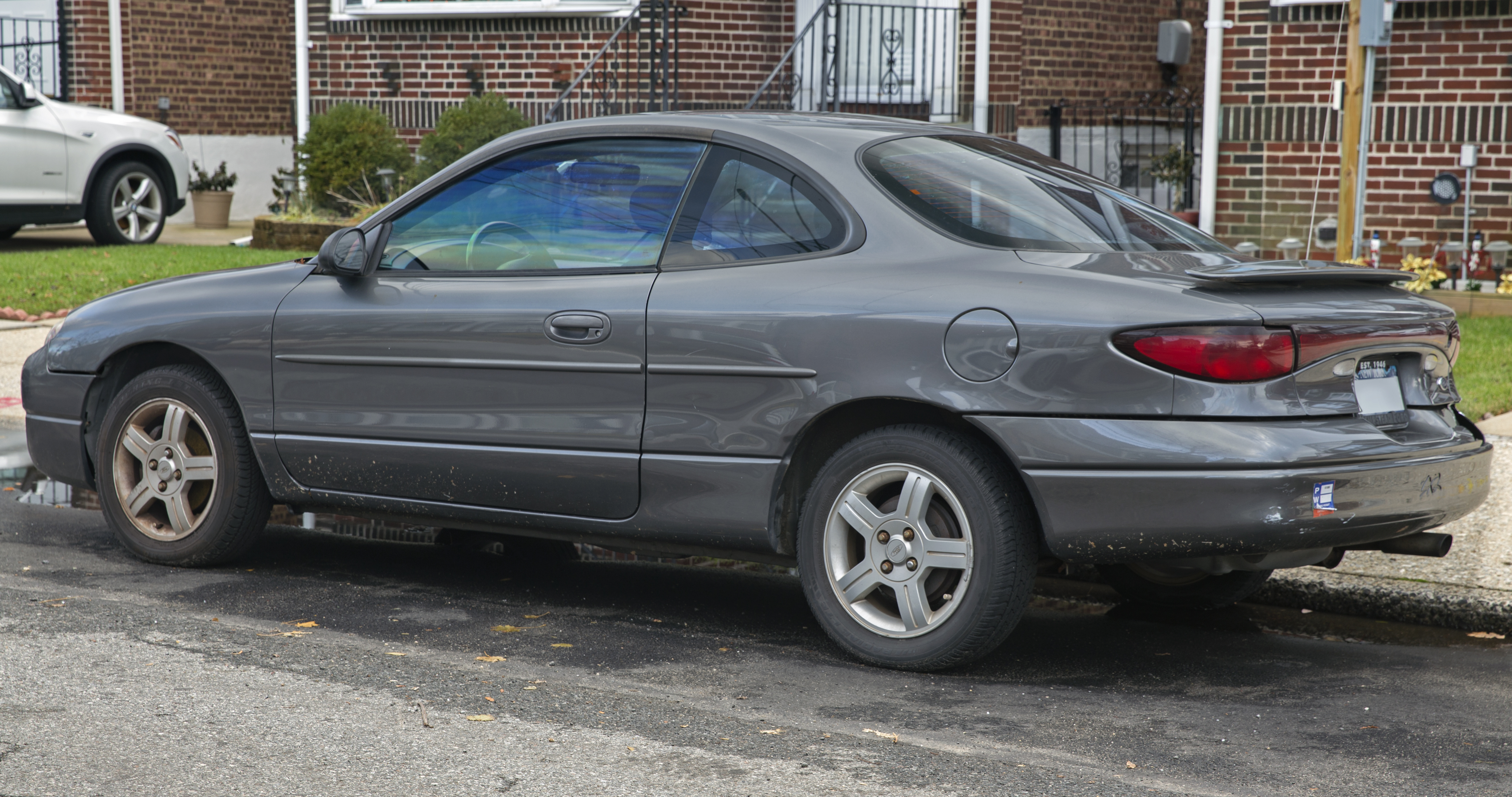 A 2003 Ford Escort ZX2 SE. Built in Hermosillo, Mexico.